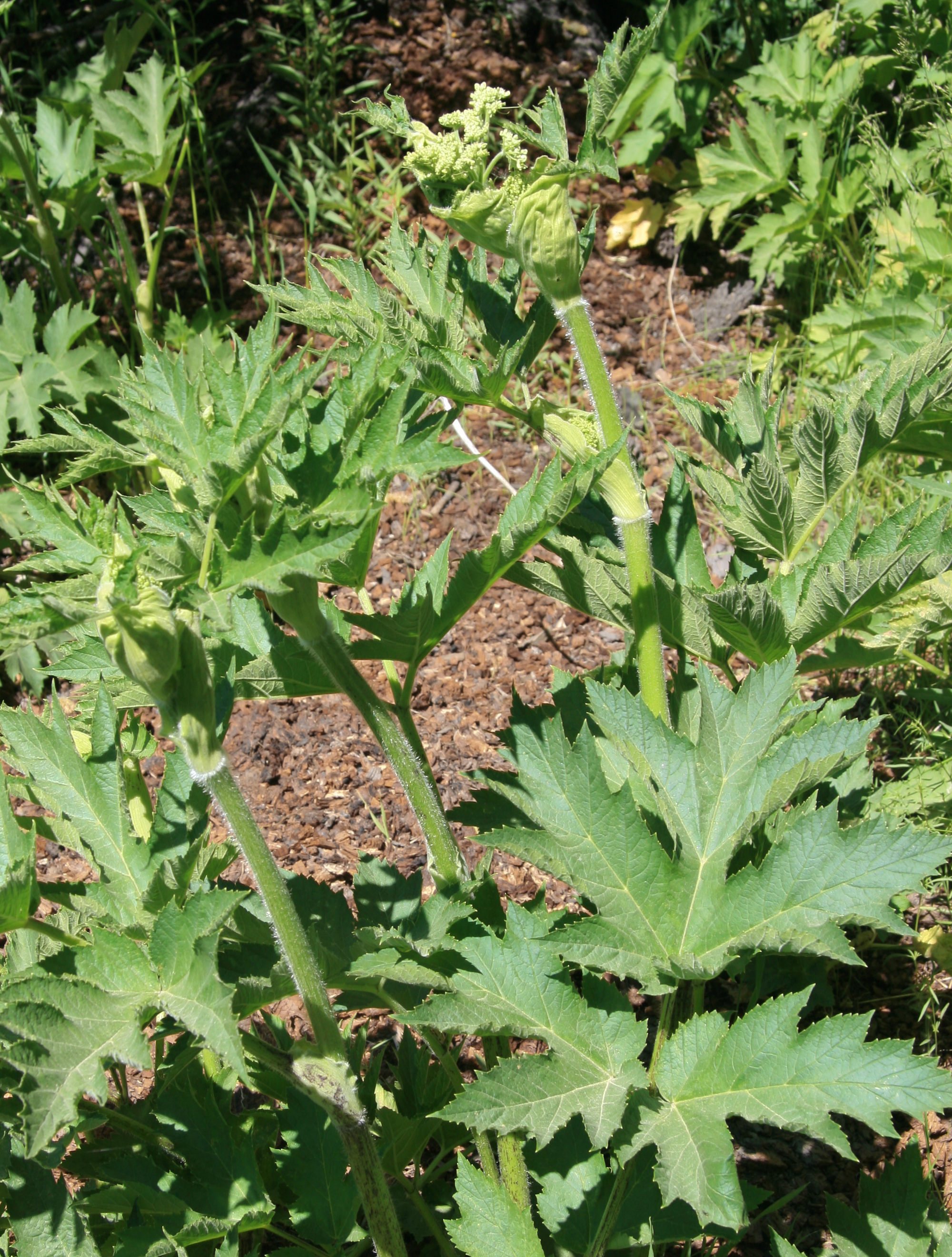 Cow parsnip (Heracleum lanatum), young plant showing big leaves, emerging buds, and large, hollow, fuzzy stems. At 8300ft in Agnew Meadows, near road to Devils Postpile National Monument from Mammoth Lakes, California.